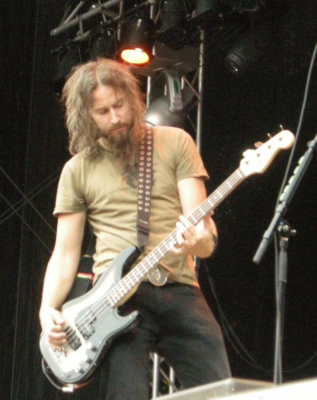 Troy Sanders, Mastodon at Sonisphere Sweden.jpg